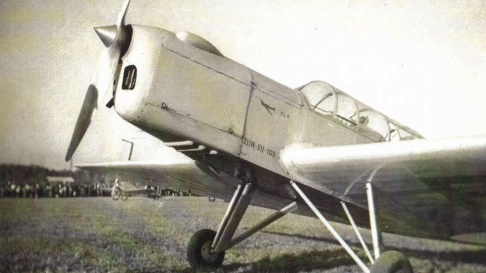 Zlín Z-XII 212 with canoped engine Walter Mikron